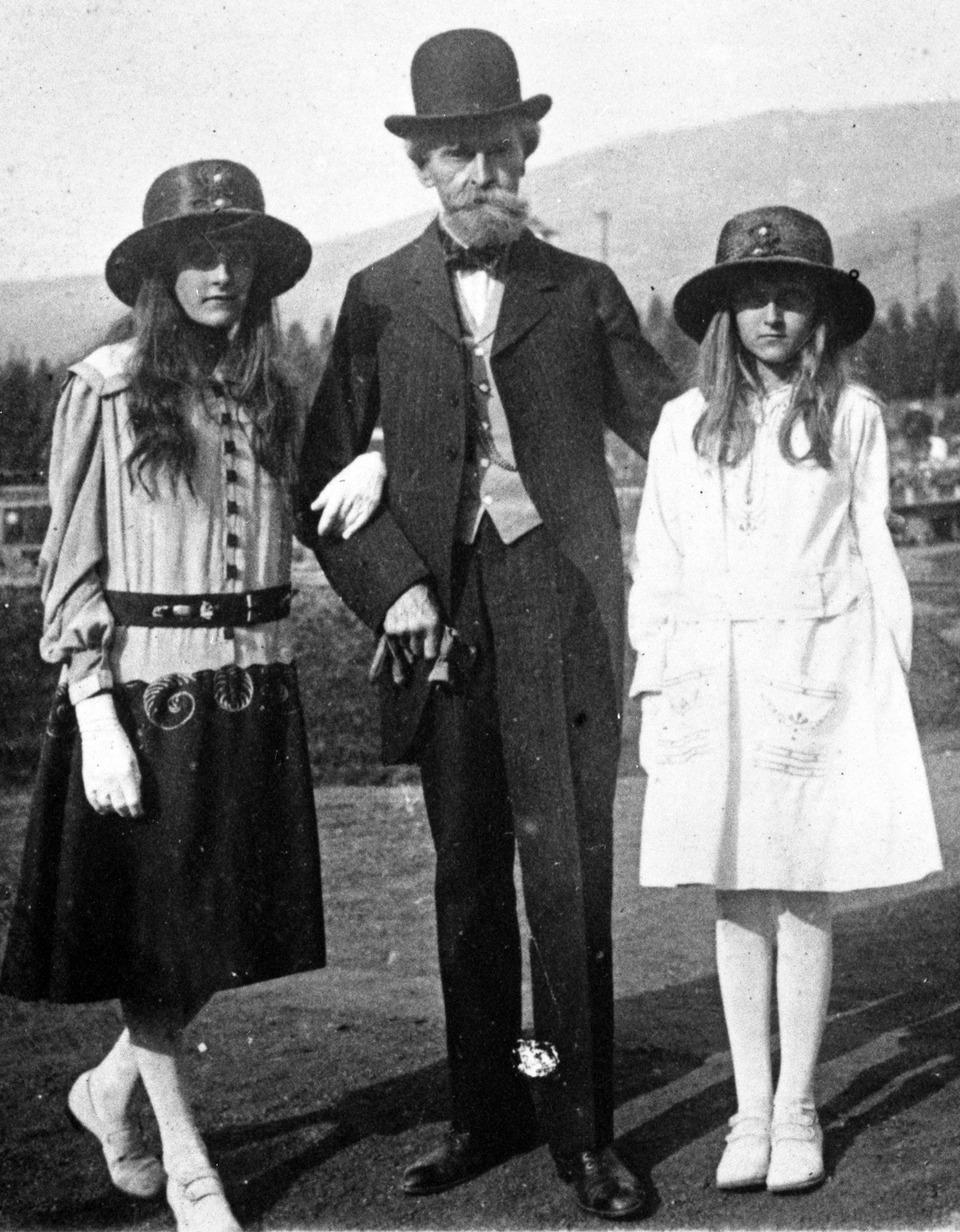 Clark and daughters visit Columbia Gardens, which he built in Butte. It was about 1917. Andrée (left) was approximately 15 years old, making Huguette (right) about 11 and Clark 78.